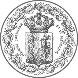 Coat of arms of the Kingdom of Araucania and Patagonia. This coat appeared mostly on some kingdom's coins manufactured in Berlin, dated 1874.[1] The kingdom was a proposed state and kingdom conceived in the 19th century by a French lawyer and adventurer named Orélie-Antoine de Tounens, who claimed the regions of Araucanía and eastern Patagonia. Nevertheless, it was an unrecognized state that enjoyed only marginal sovereignty in a brief period of time, through alliances with some Mapuche lonkos, in a reduced area of Araucanía, in current Chile.